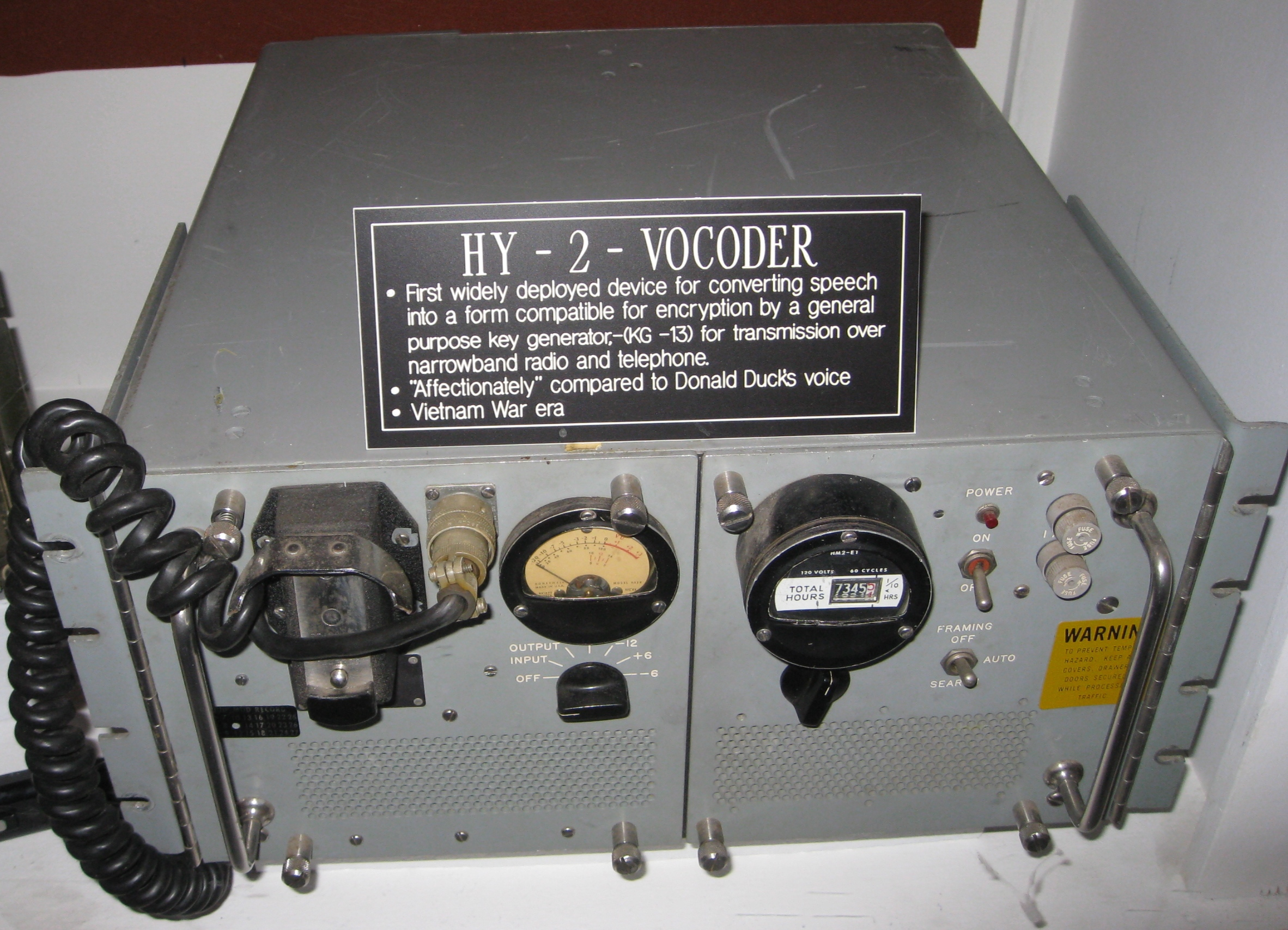 TSEC/HY-2 VOCODER of AUTOSEVOCOM I (mid 1960s) i09_0214 158